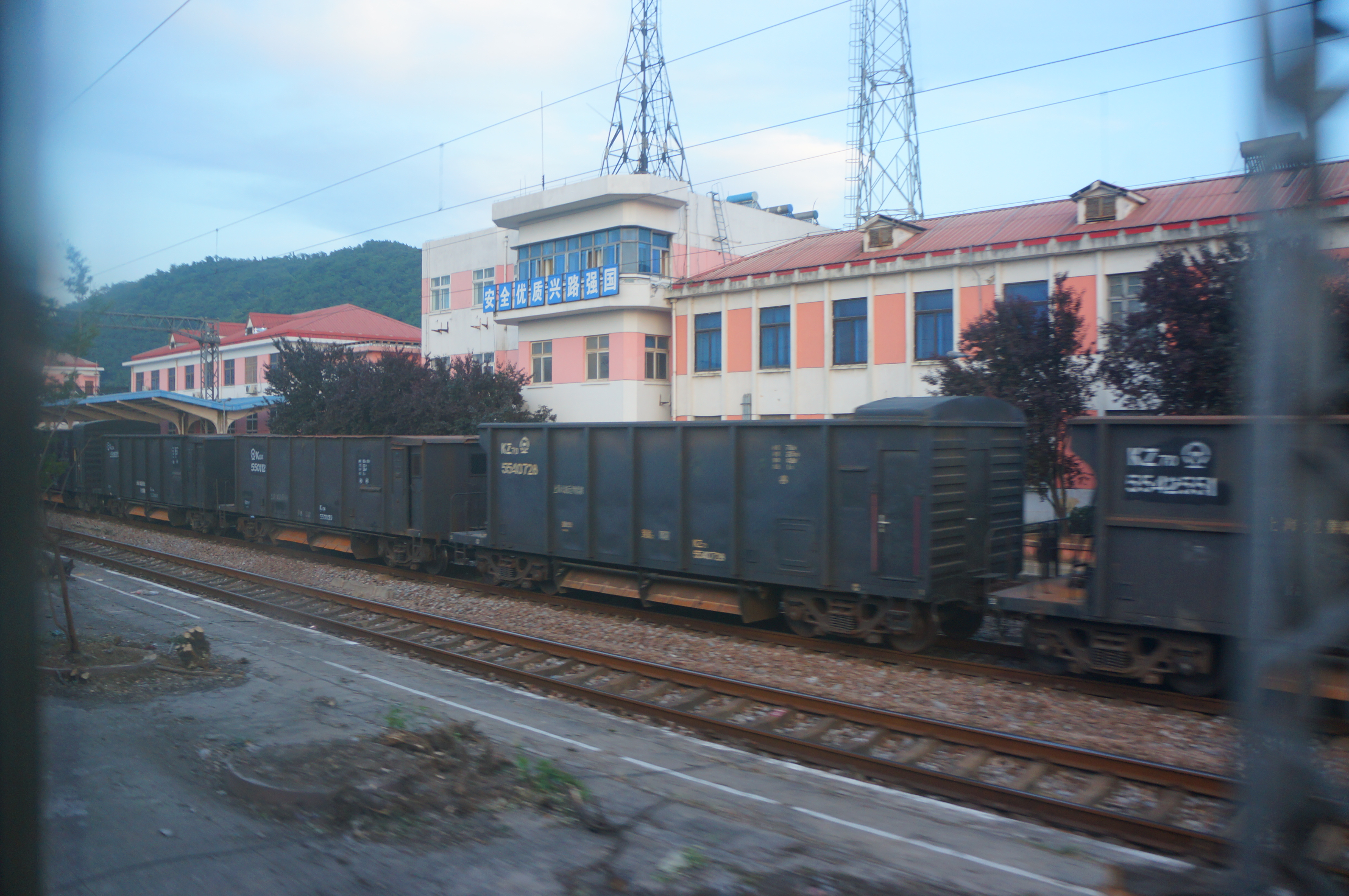 201705 Station building of Longtan Station